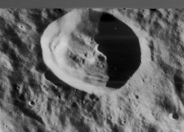 Oblique view of Graff, on the moon.